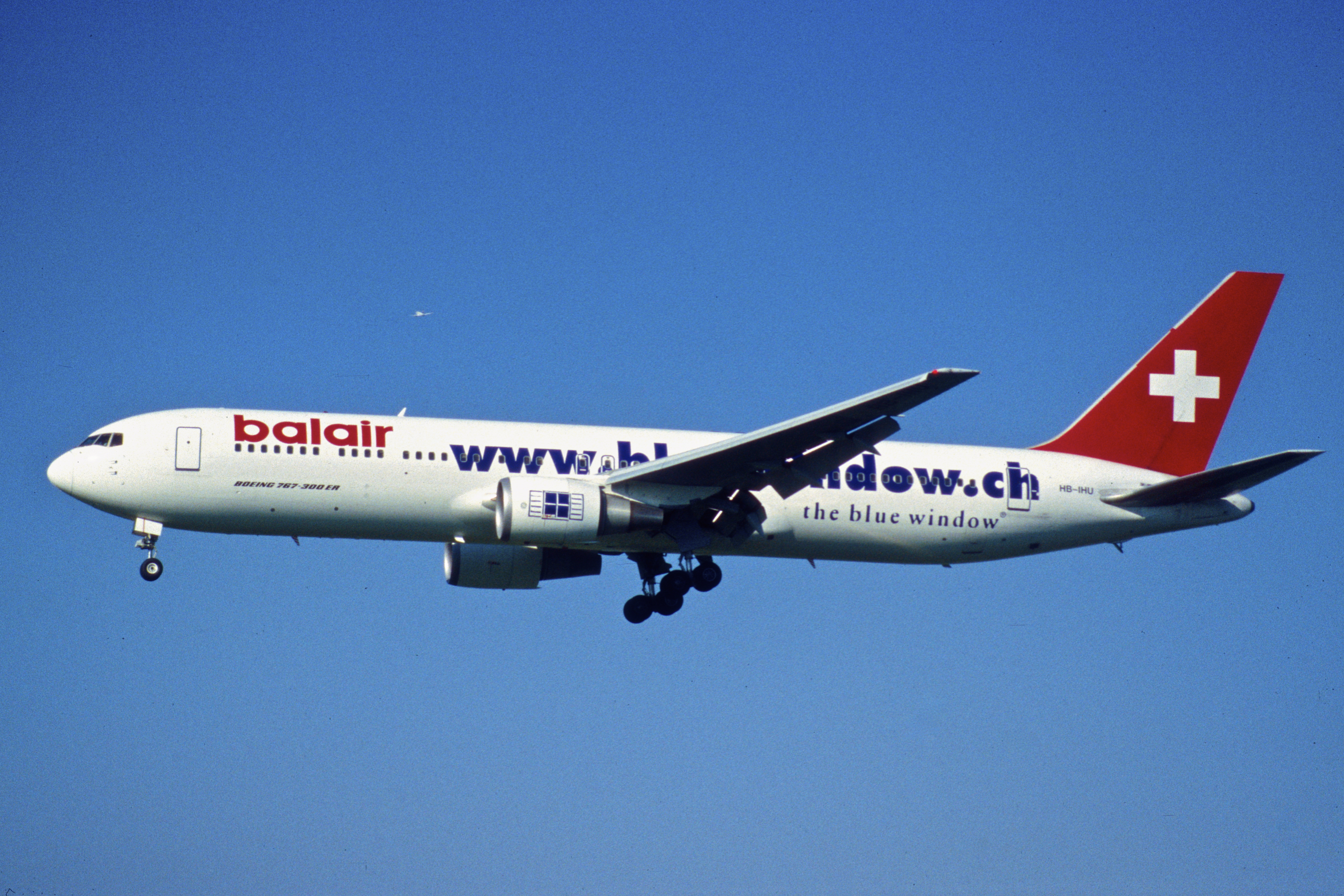 This Boeing 737-35H ER took its first flight on September 22, 1992...(c/n 26388/ 456) 07/10/1992 Air Europe S7-AAV 23/12/1993 Air Europe Italy EI-CJB 28/10/1999 Balair HB-IHU 29/11/2000 Canadian Airlines C-GHLK 29/03/2001 Air Canada C-GHLK 15/07/2001 Ansett Australia VH-BZM 07/11/2001 Air Canada C-GHLK